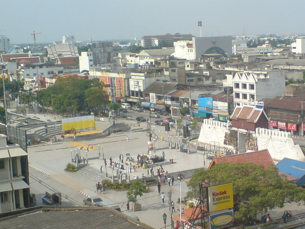 The statue of Thao Suranaree and Chomphon Gate. Zoomed in and taken from the Klang Plaza department store, the photo shows people kneeling and praying in front of 'Yamo'. The Chomphon Gate is behind and the amphitheatre/performance area is to the left. The huge building with the brown roof at the top-middle of the picture is Suranaree Witthaya School, Nakhon Ratchasima.